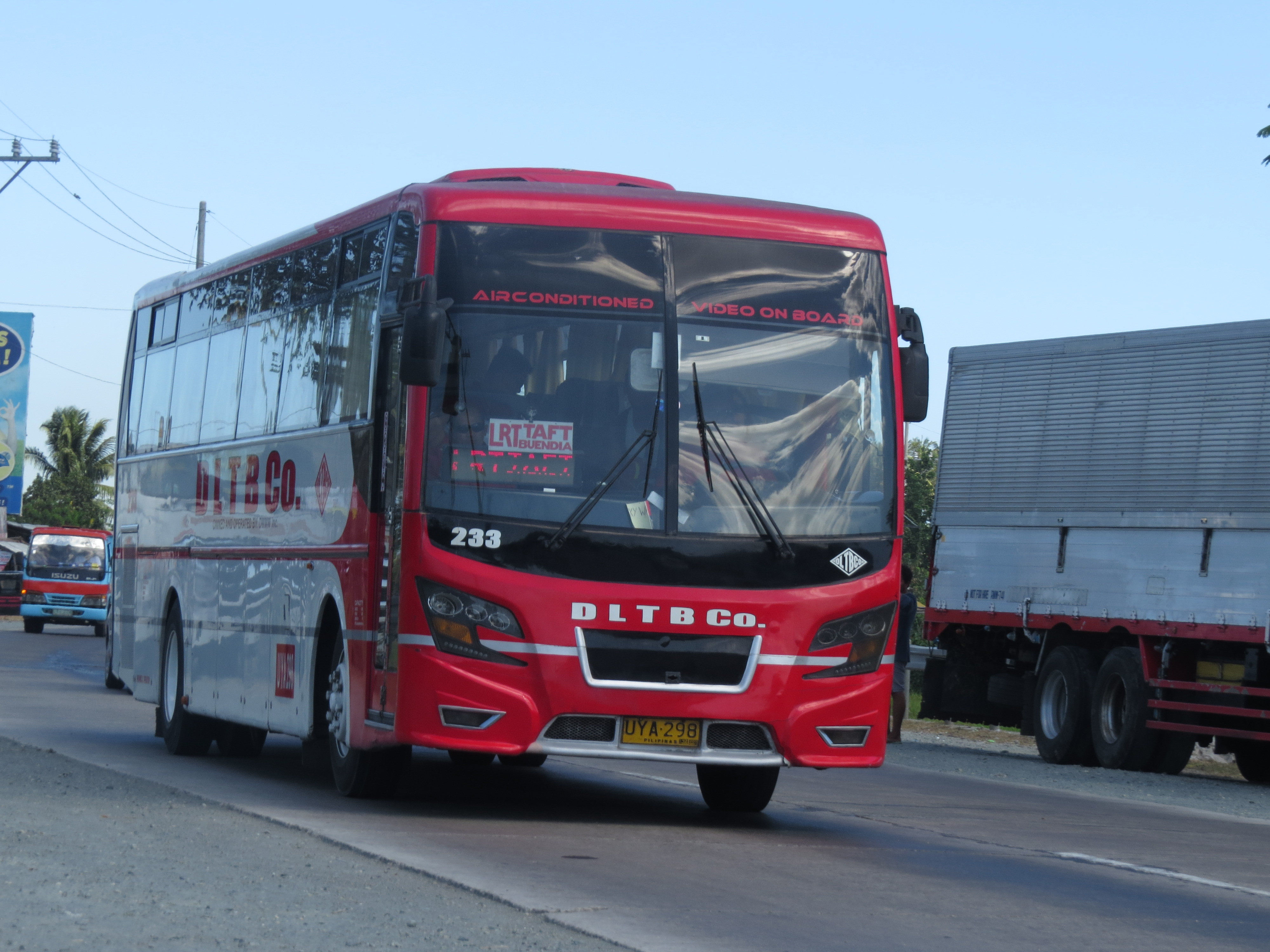 operated by DLTBCo.